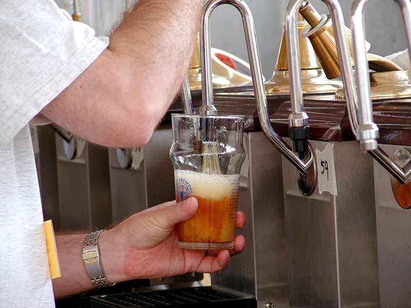 A swan neck handpump with a sparkler head.